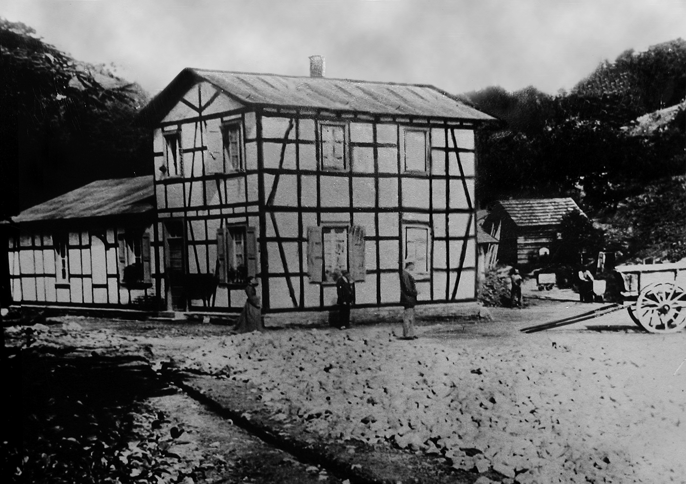 Mine Columbus near Bensberg about 1900